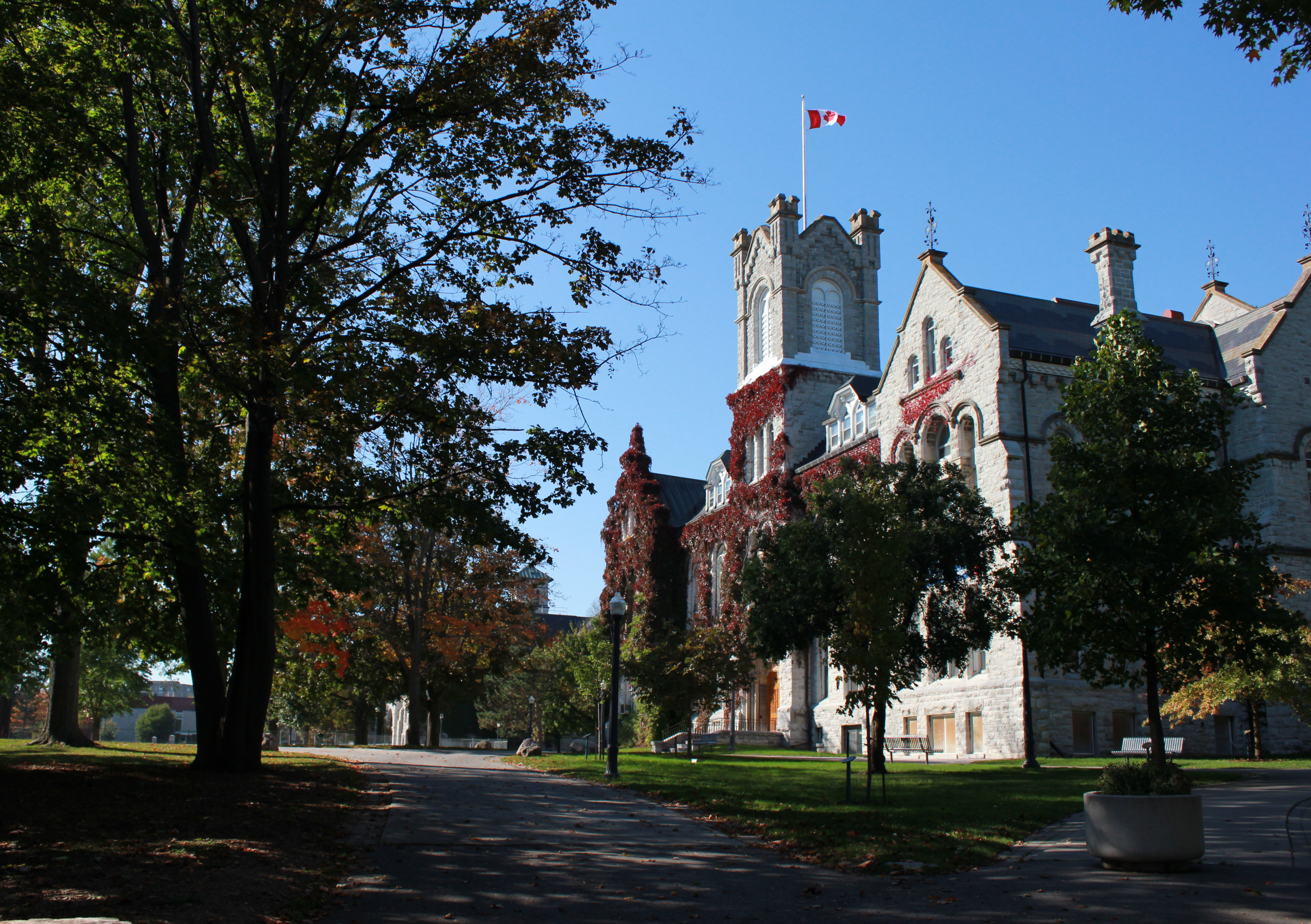 Theological Hall at Queen's University, Kingston.